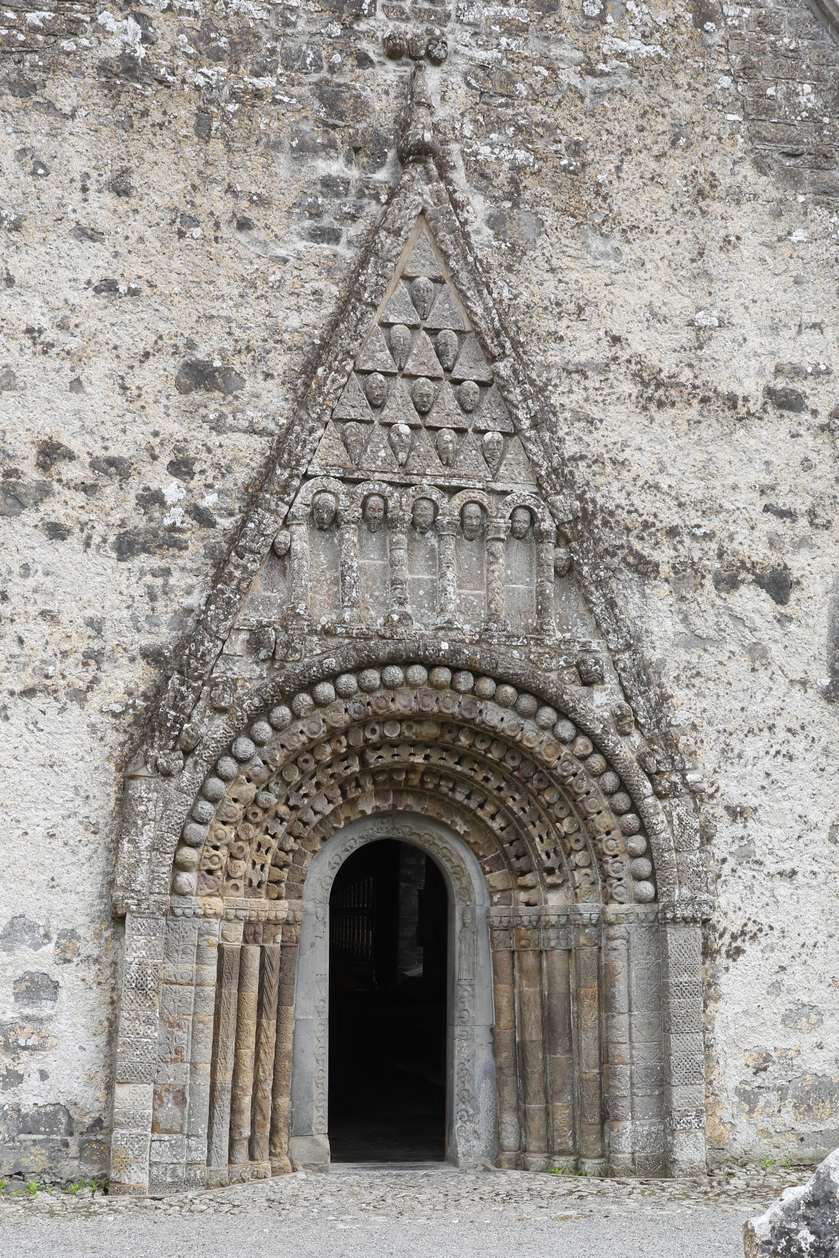 Kathedrale von Clonfert